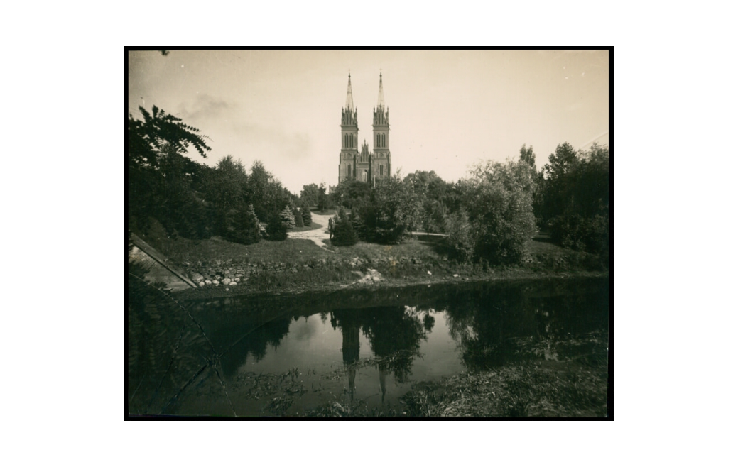 View for the Cathedral and Zgłowiączka river. Photograph by Karol Szałwiński (1869-1906). It cames from the collection of Mieczysław Orłowicz.